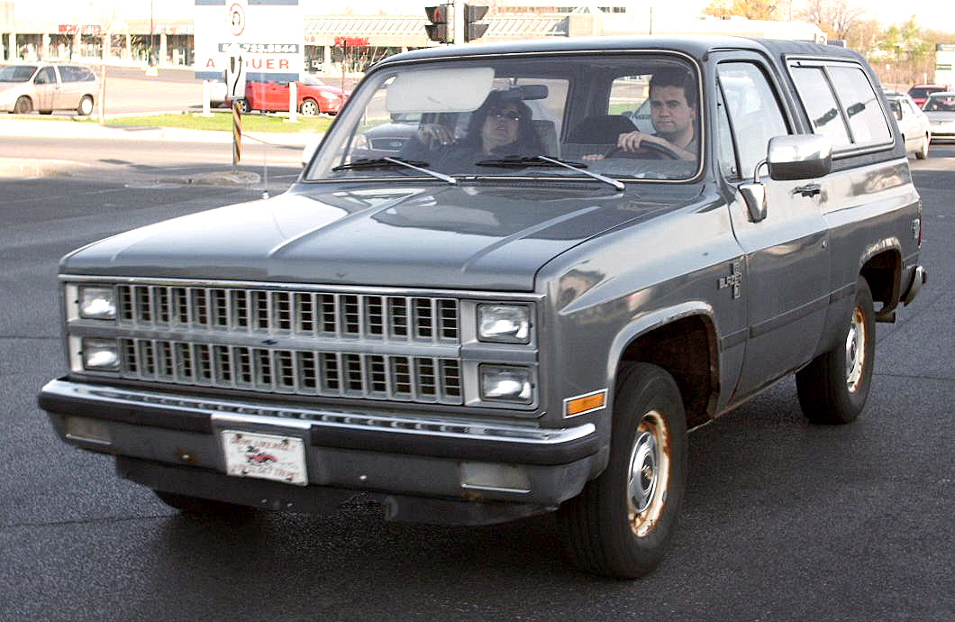 1981-1982 Chevrolet K5 Blazer photographed in Montreal, Quebec, Canada.